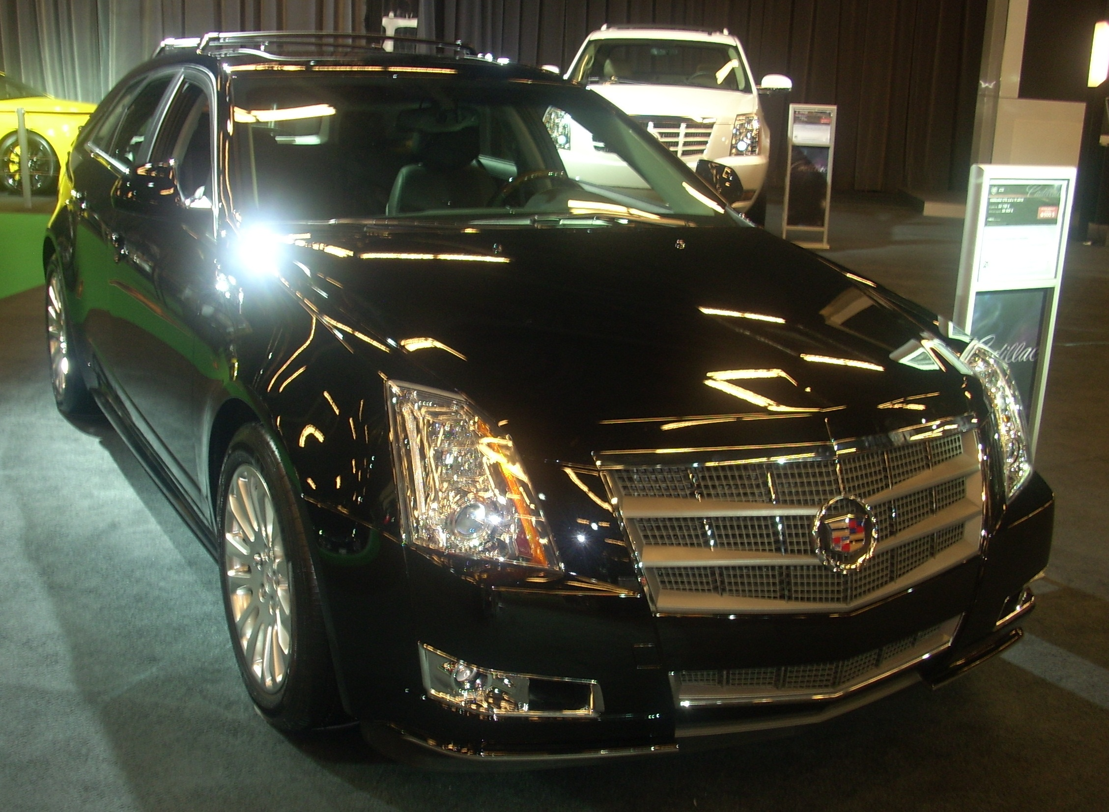 2010 Cadillac CTS photographed in Montreal, Quebec, Canada at the 2010 Montreal International Auto Show.